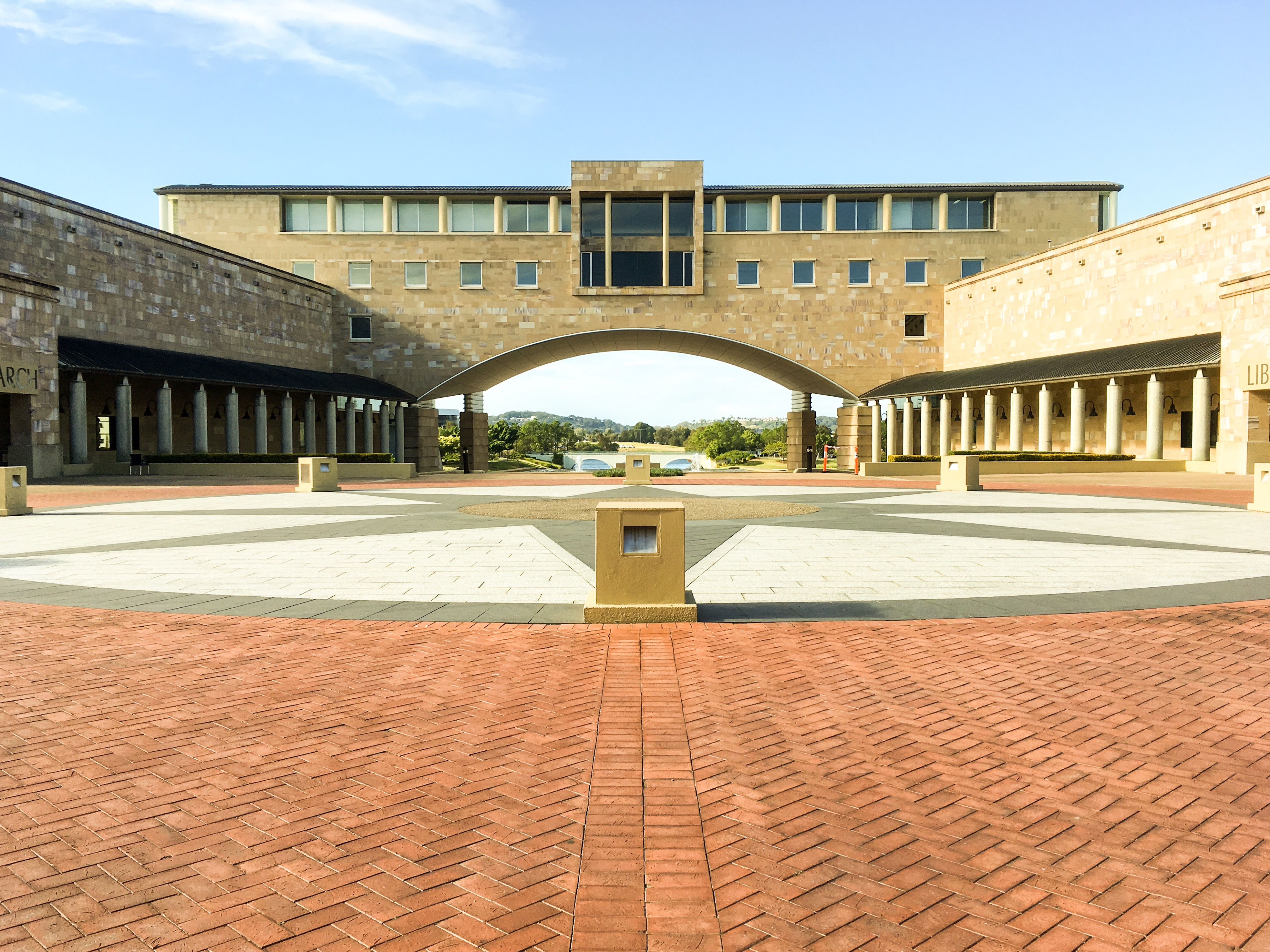 Sandstone building on a university campus in Queensland, Australia.